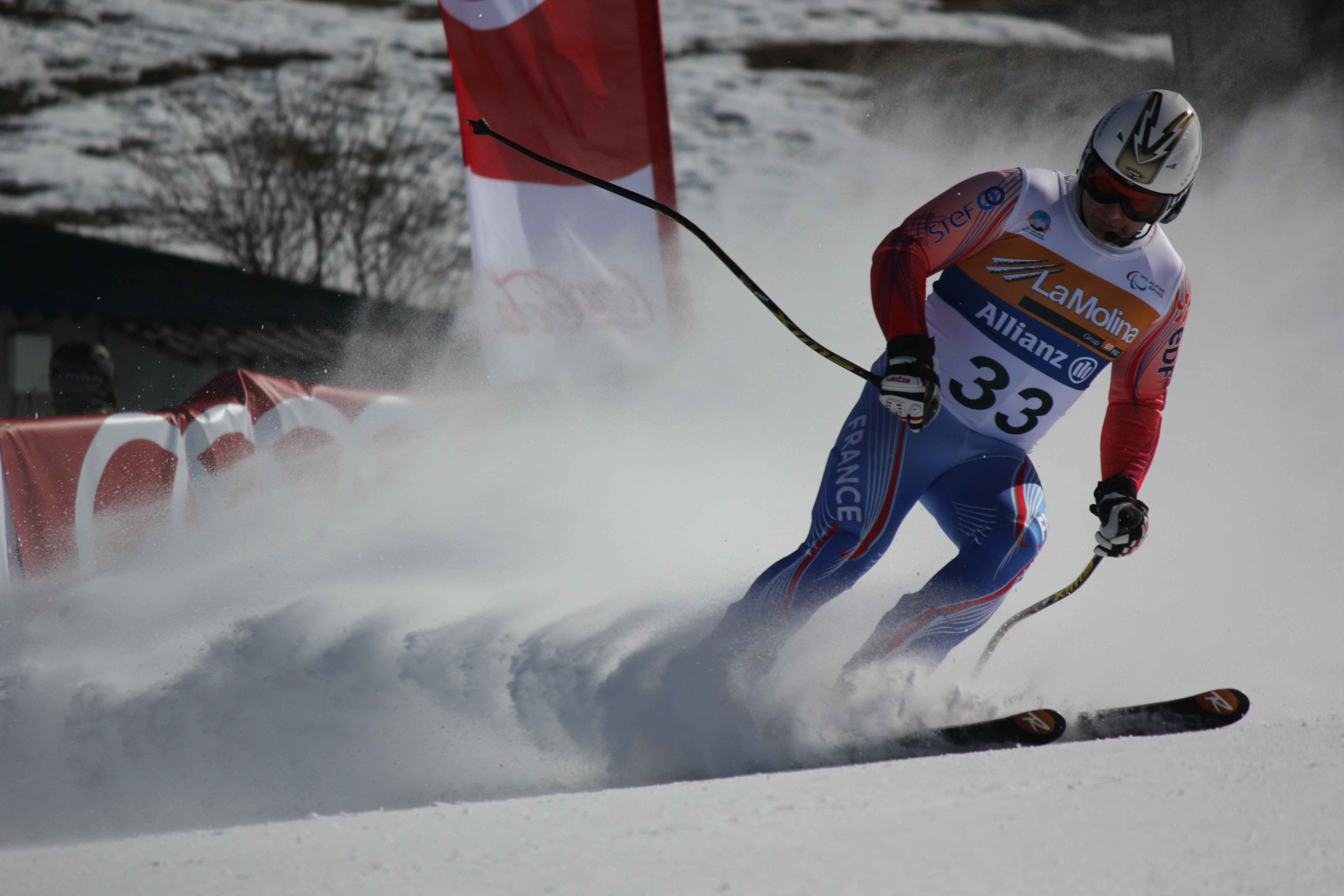 Nicolas Berejny of France. 2013 IPC Alpine World Championships at La Molina in Spain. Day 2 of competition. Super-G final.